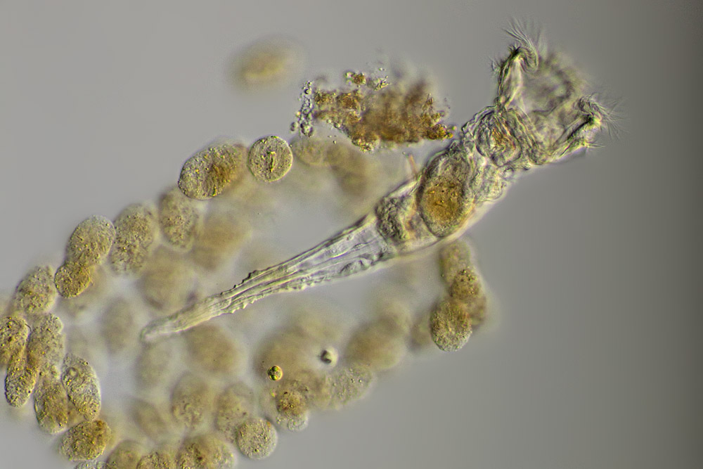 Ptygura pilula, a Rotifera (wheel animal)